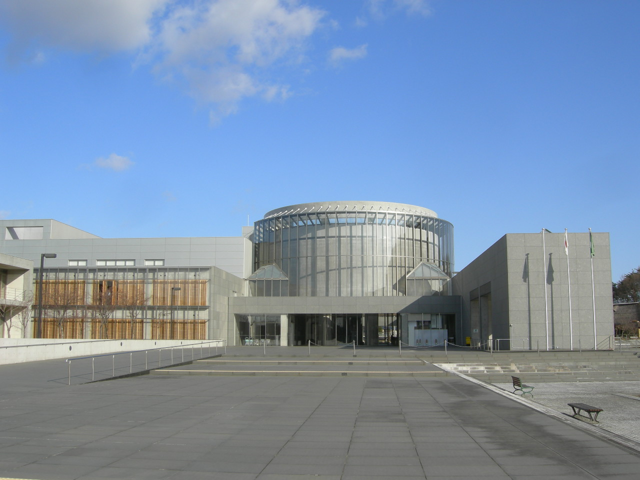 Tohoku History Meseum. Tagajō, Miyagi prefecture, Japan. Entrance Hall.